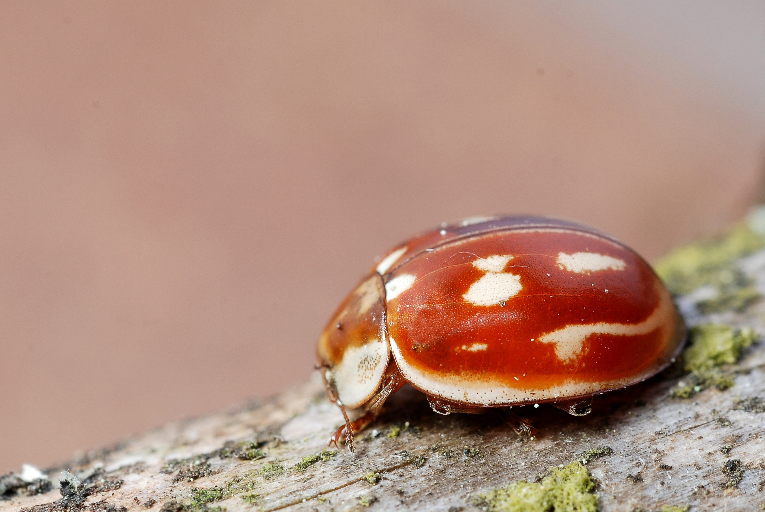 A quite rare ladybird species living exclusively on Pine trees. This species seems to be in regression in Belgium for unknown reasons